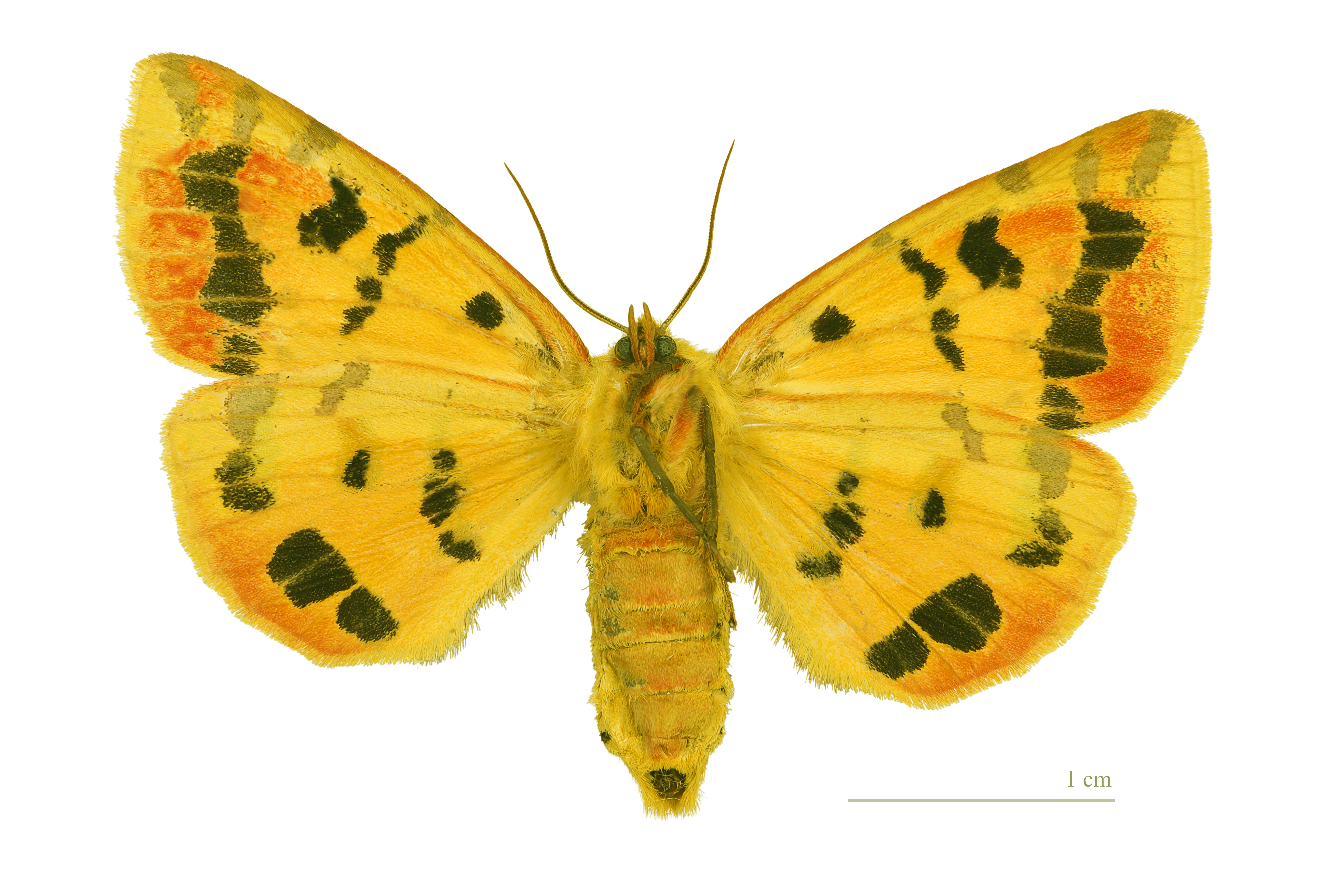 Purple Tiger ♂ - △ Ventral side Locality: Fonsorbes, Hautes-Garonne, France